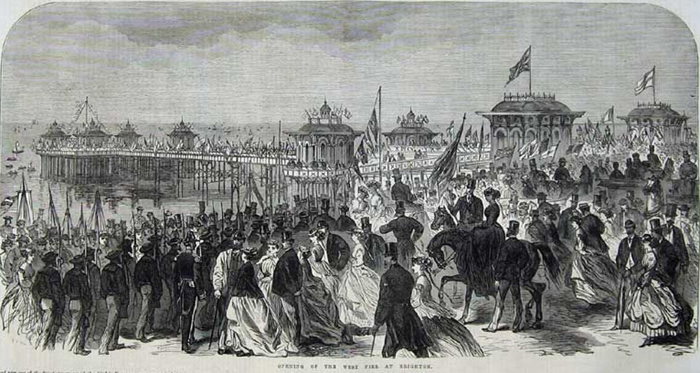 The opening of West Pier, Brighton, in 1866 from the Illustrated London News. Originally the pier had only six rather small ornamental houses, two toll houses and glass screens at the pier end to protect visitors from the elements.